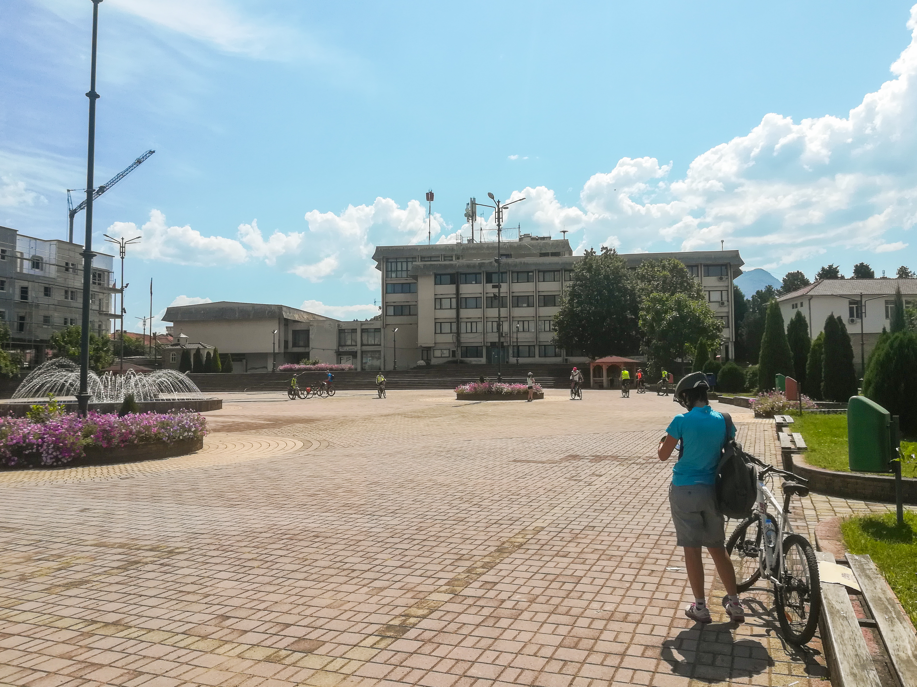 City square - Vinica